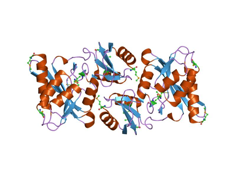 Cartoon representation of the molecular structure of protein registered with 1lkz code.